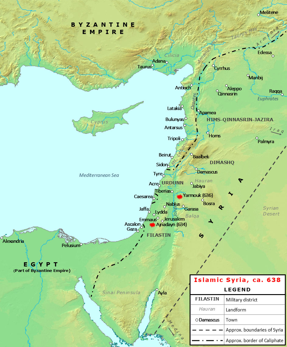 The region of Syria (Bilad al-Sham in Arabic) toward the end of the Muslim conquest from Byzantine Empire. Sources: Donner, Fred (1981). The Early Islamic Conquests